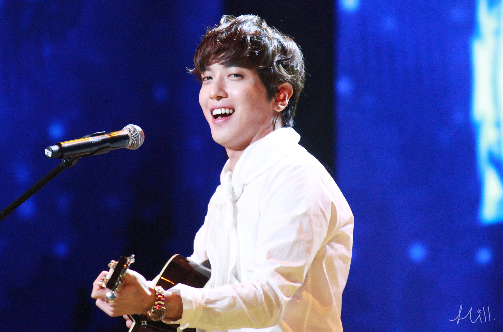 Jung Yong-hwa performing at the Top Chinese Music Awards in Shenzhen, China, on April 13, 2015.